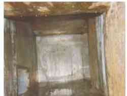 Example of a properly cleaned kitchen exhaust duct.